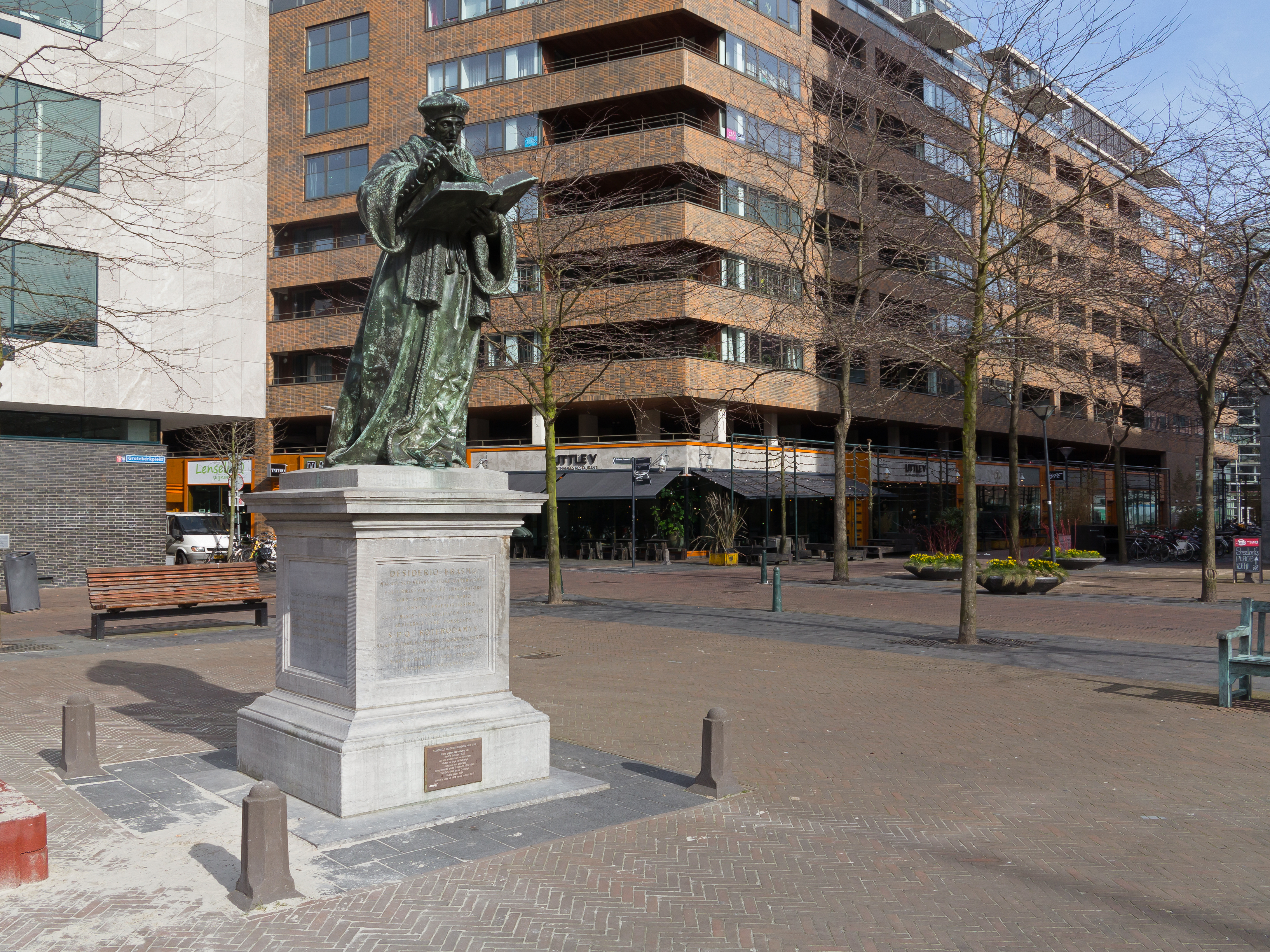 Rotterdam, statuie: Desiderius Erasmus